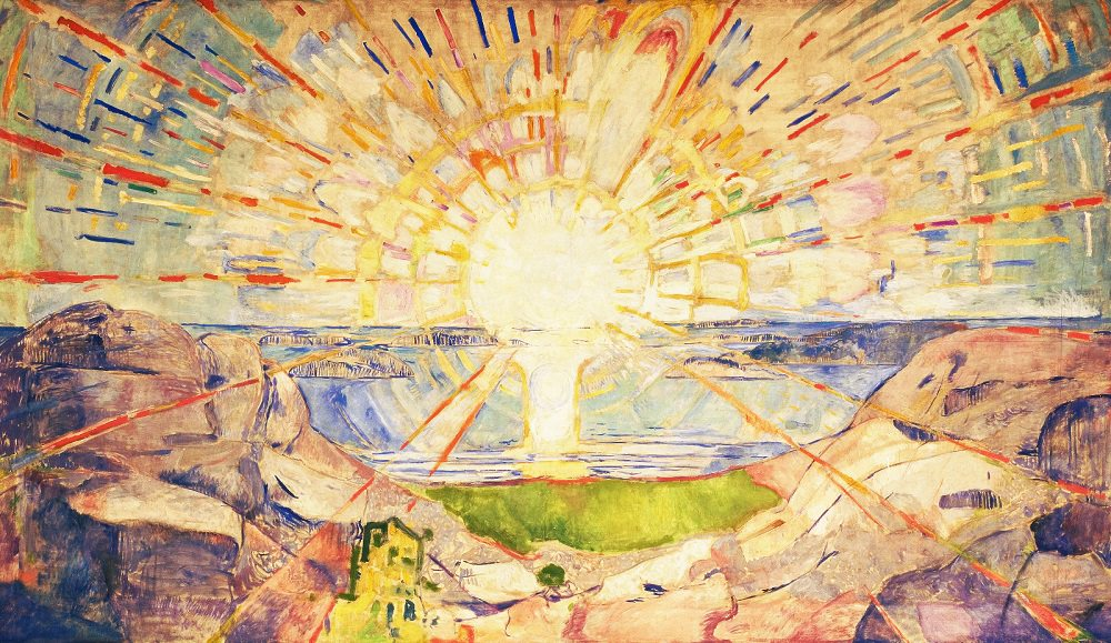 Sun-Edvard Munch